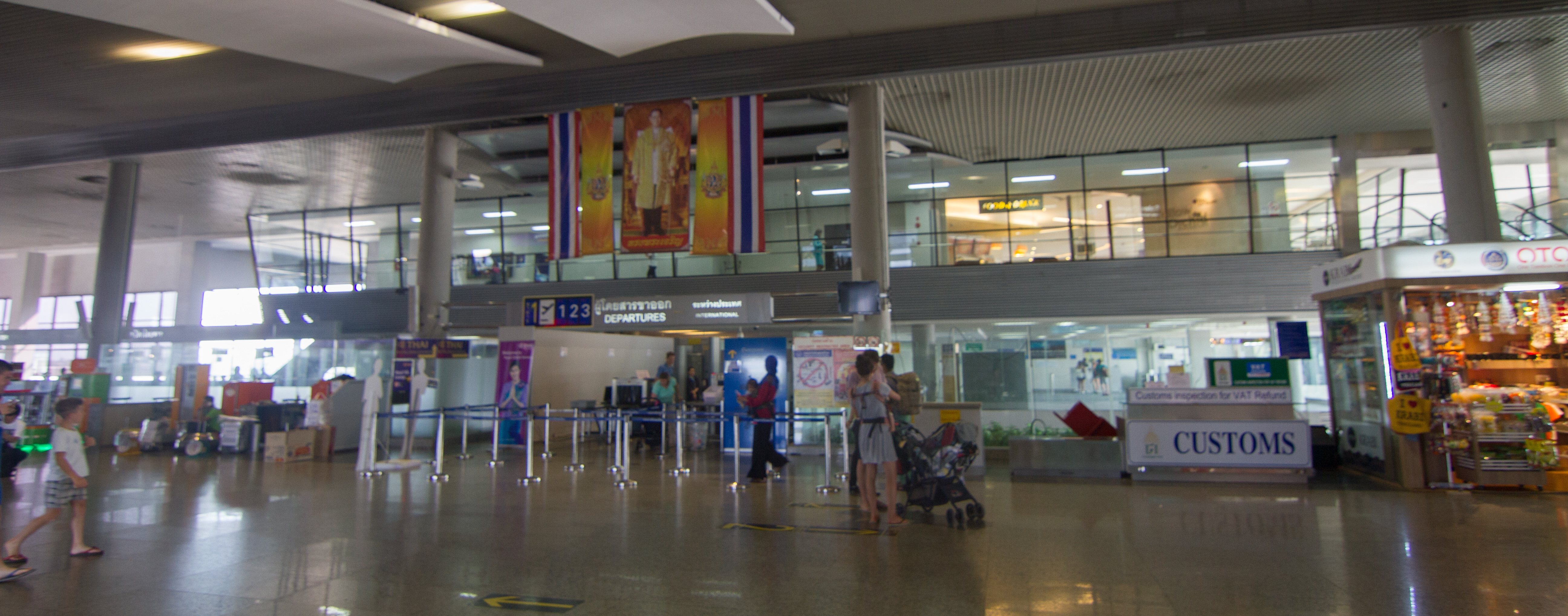 Krabi Airport